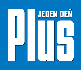 Logo of daily Slovak newspaper Plus JEDEN DEŇ